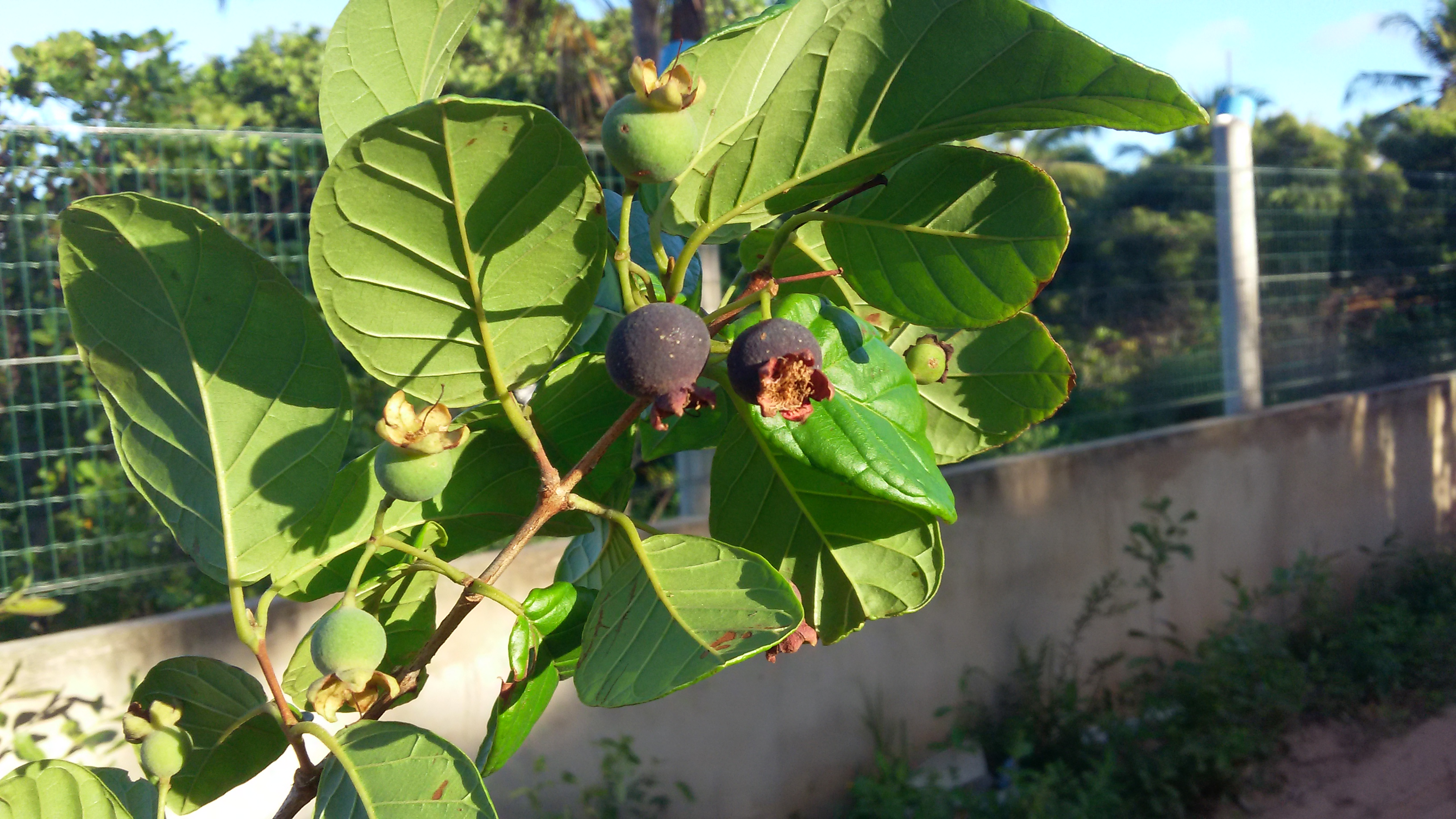 Little fruit of Campomanesia xanthocarpa tree.